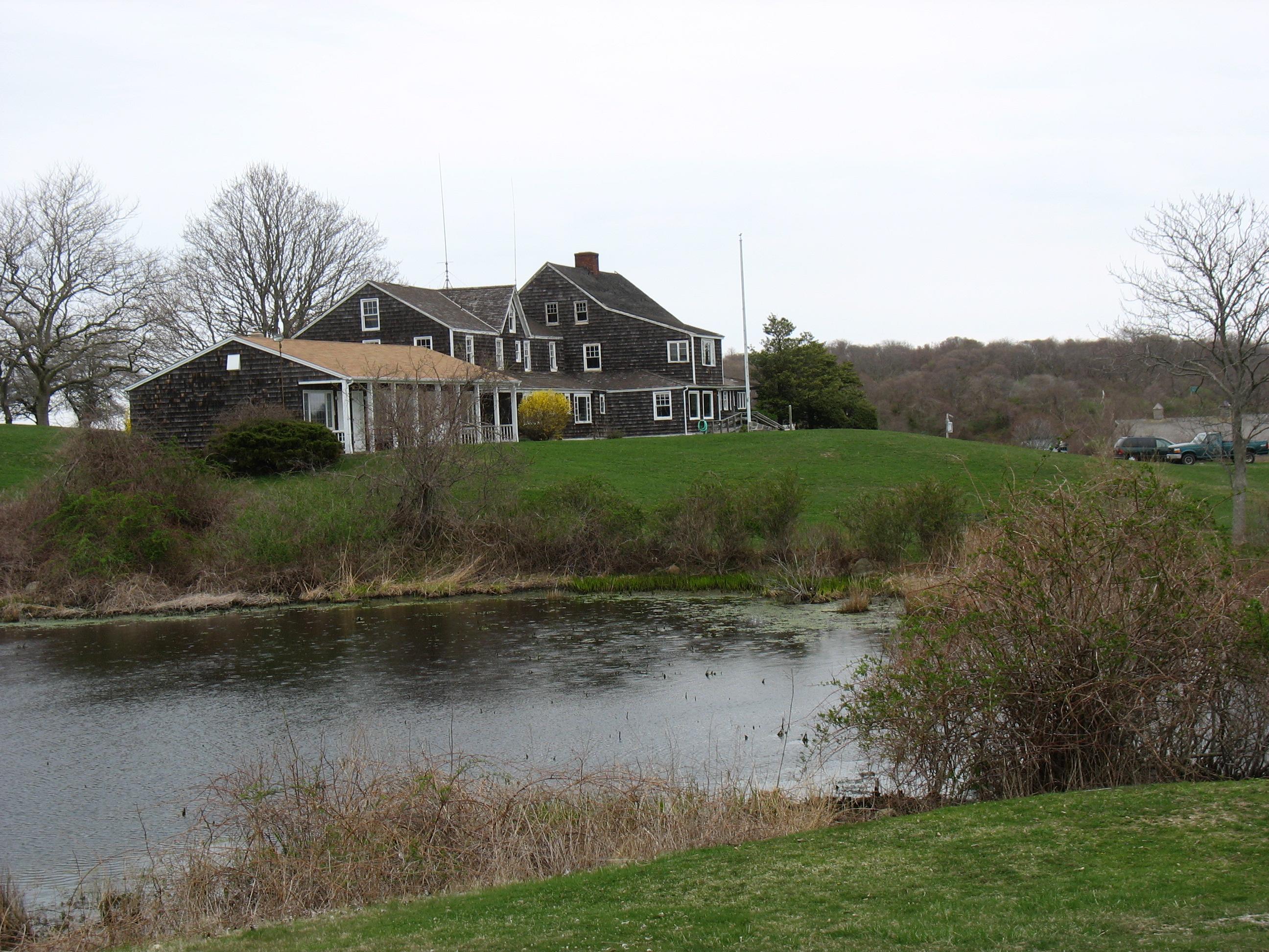 Photo I took on April 22, 2006, of Third House at Theodore Roosevelt County Park.